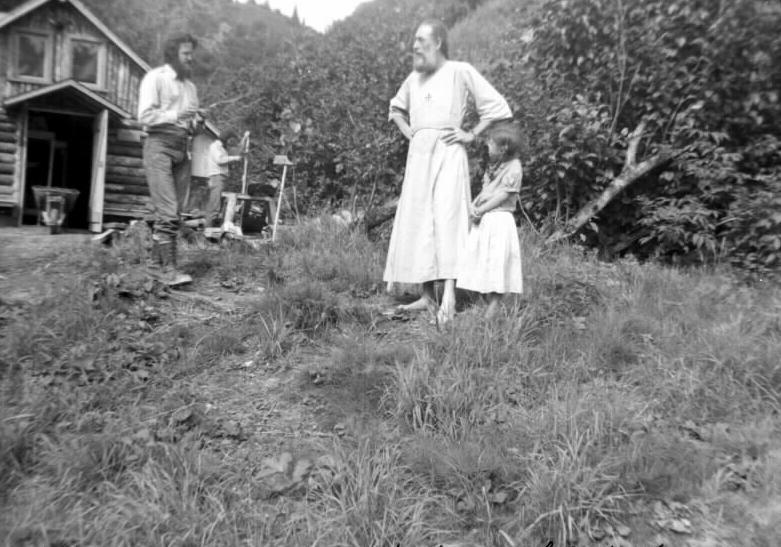 Krishna Venta, checking out the progress at the homestead. The log cabin on the left was the original building.